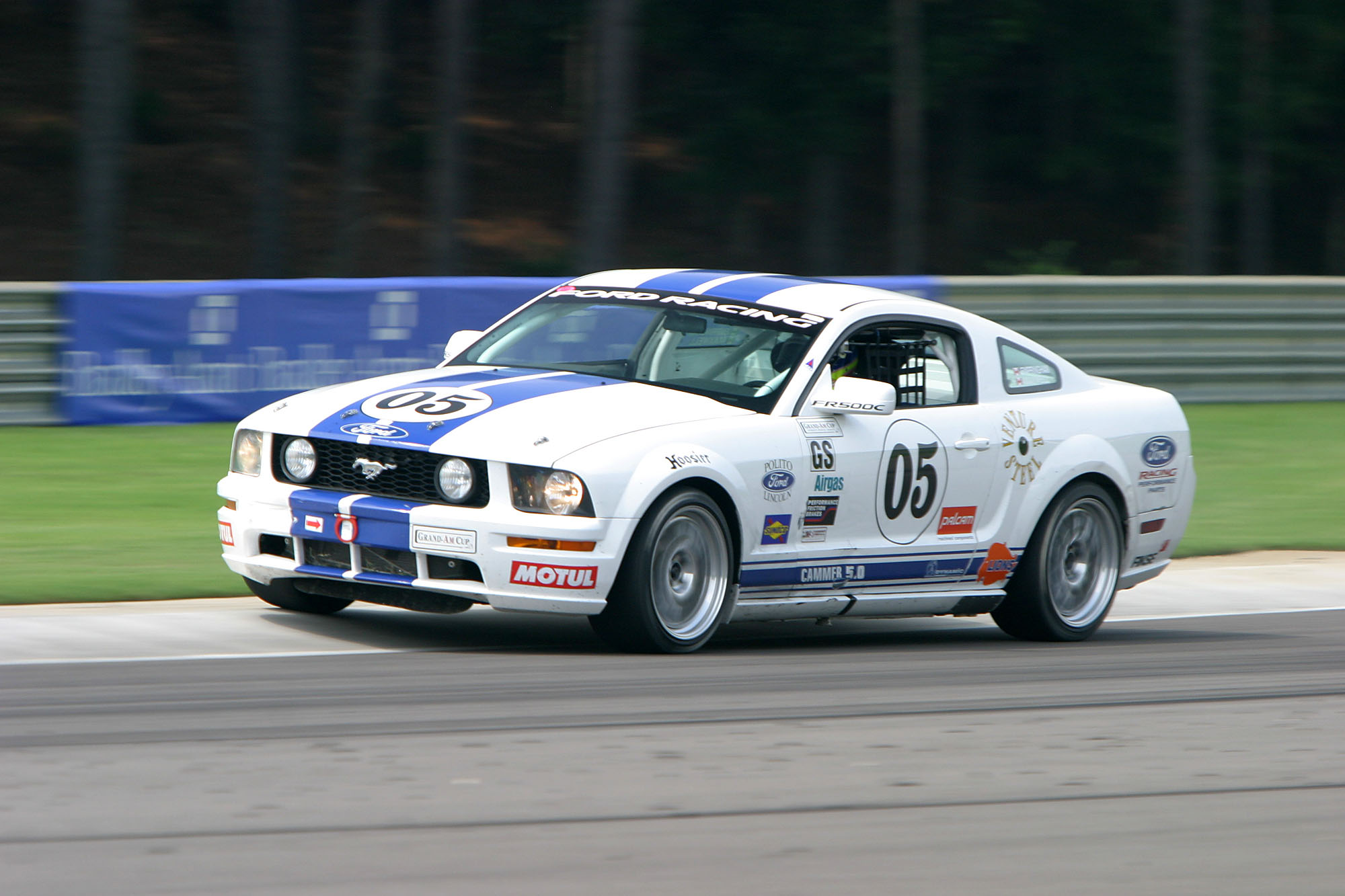 Ford Mustang GT (racing GT car).